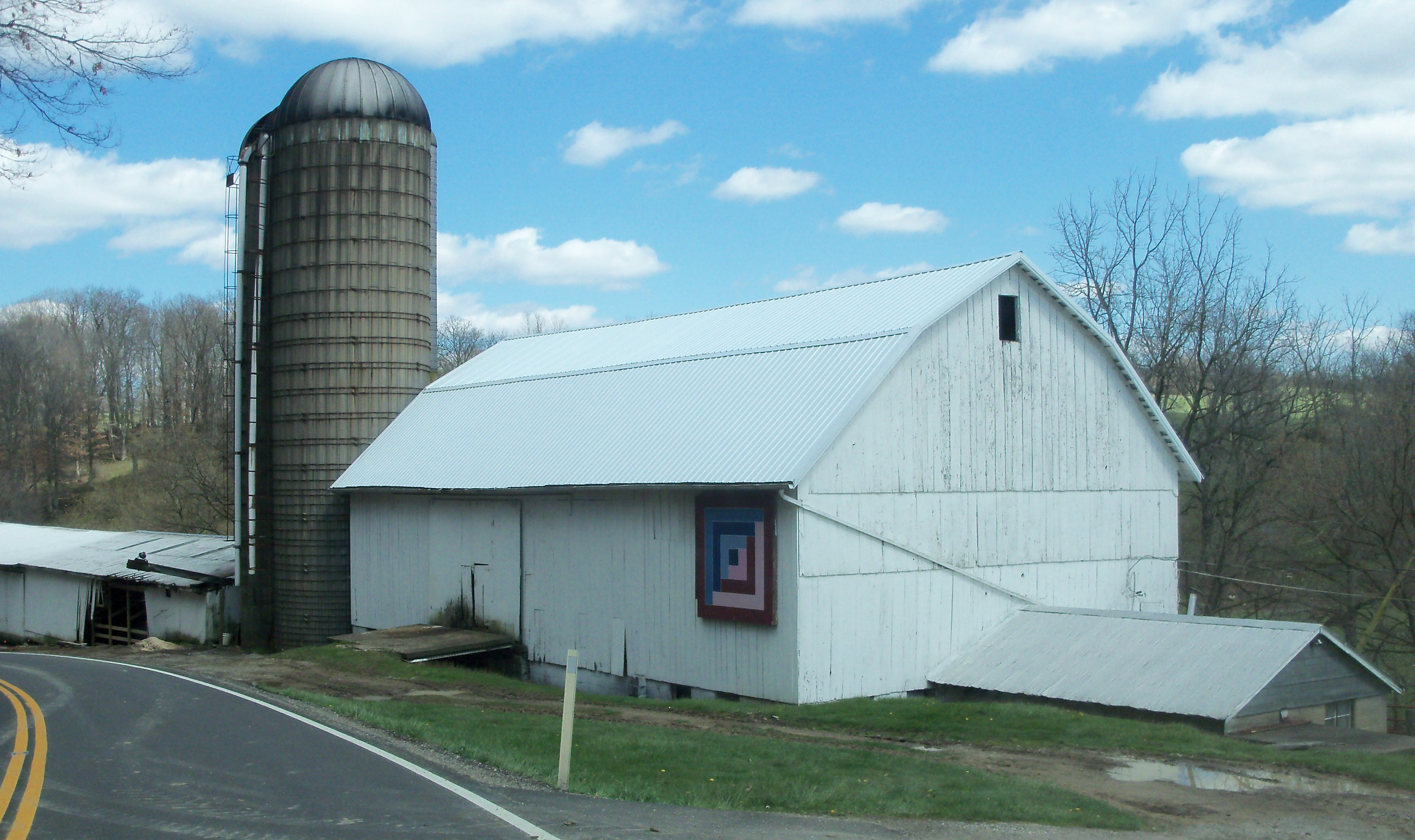 Log Cabin quilt patch on a barn on Ohio State Route 646